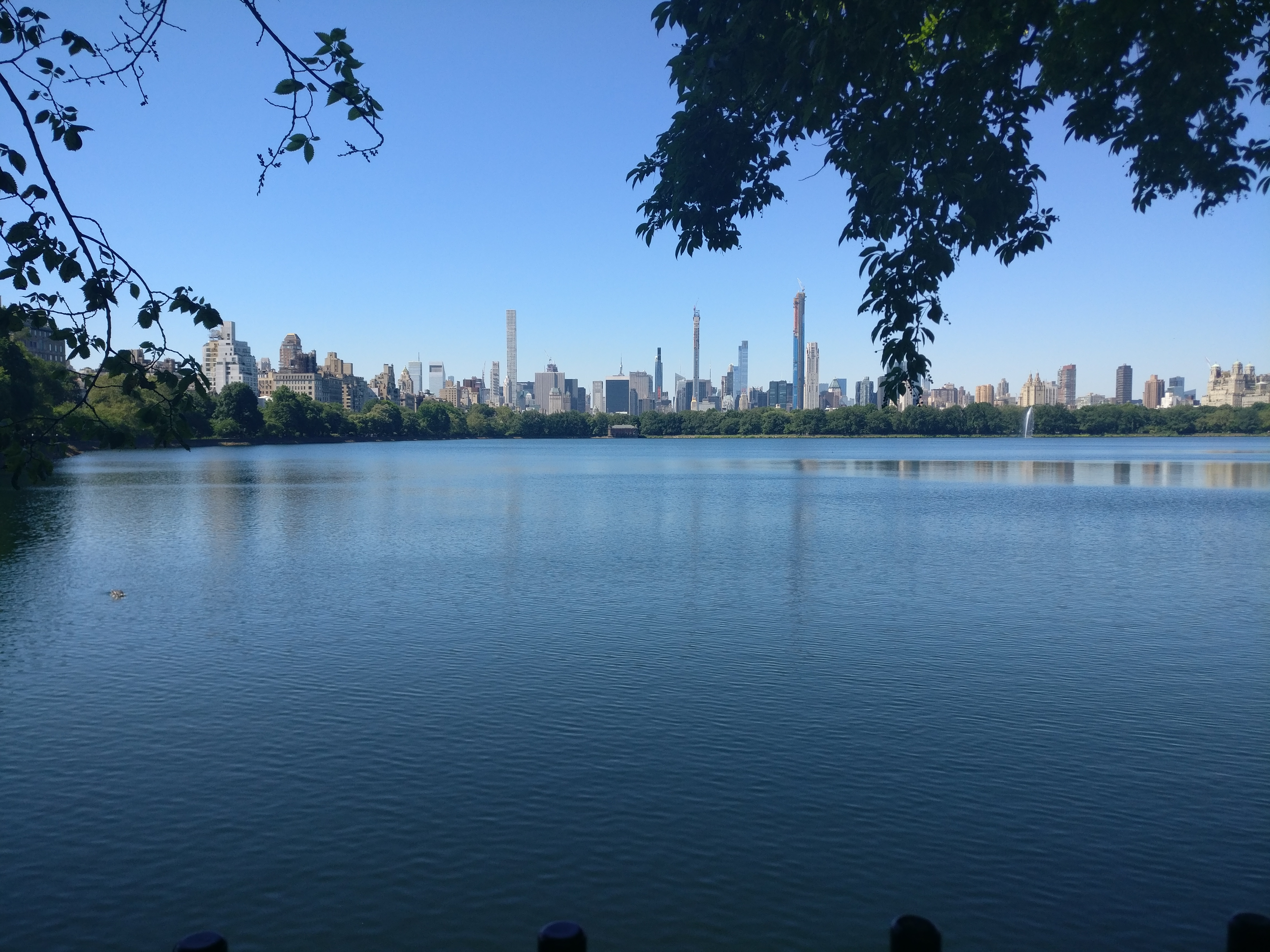 Looking South at Jacqueline Kennedy Onassis Reservoir, Central Park. Taken on 1st July 2019.